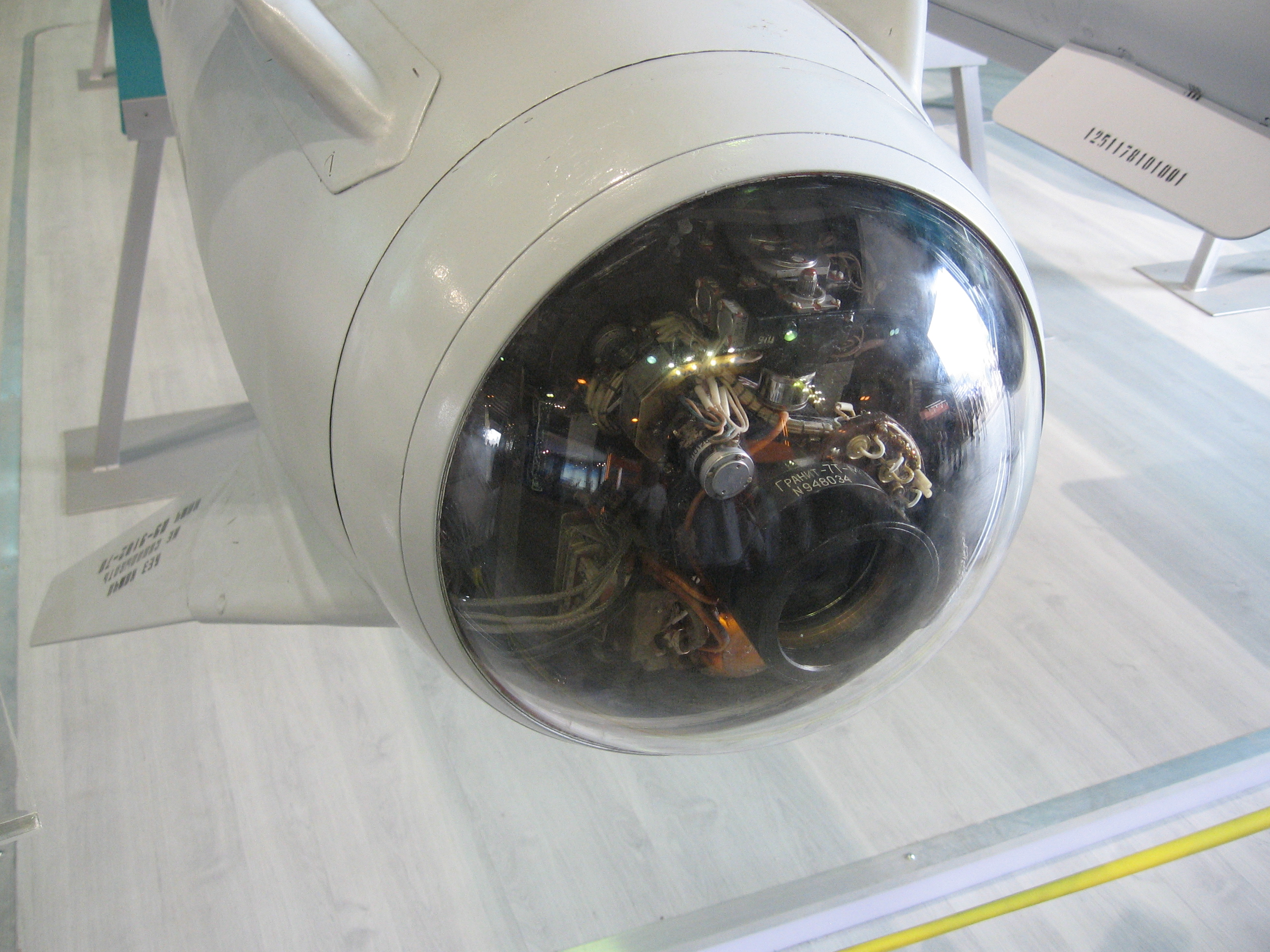 Х-59МЭ at MAKS-2007